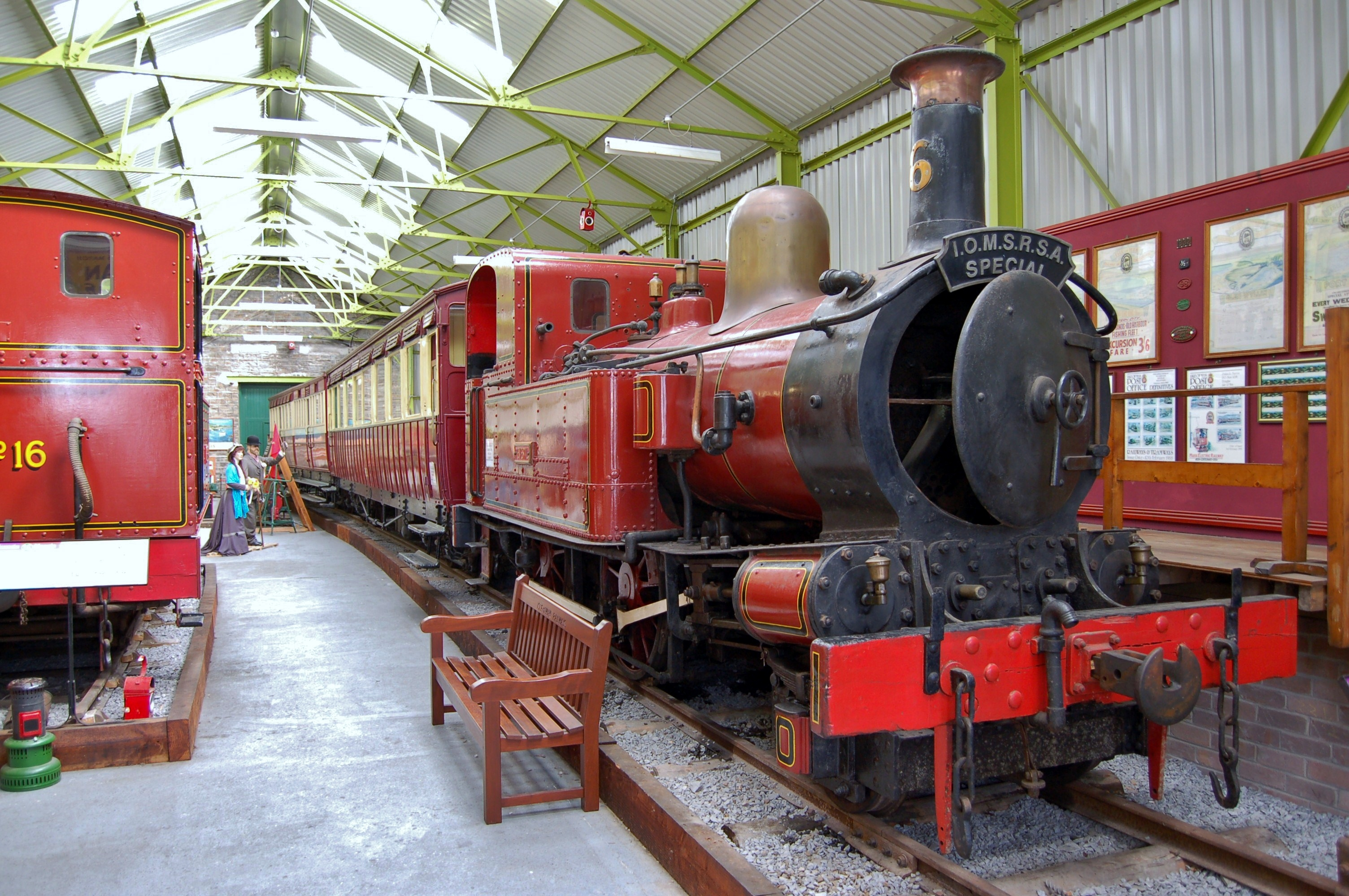 Isle of Man Railway steam locomotives on static display at the Port Erin Railway Museum, Port Erin, Isle of Man: (L-R) No. 16 Mannin, No. 6 Peveril with a train of coaches.